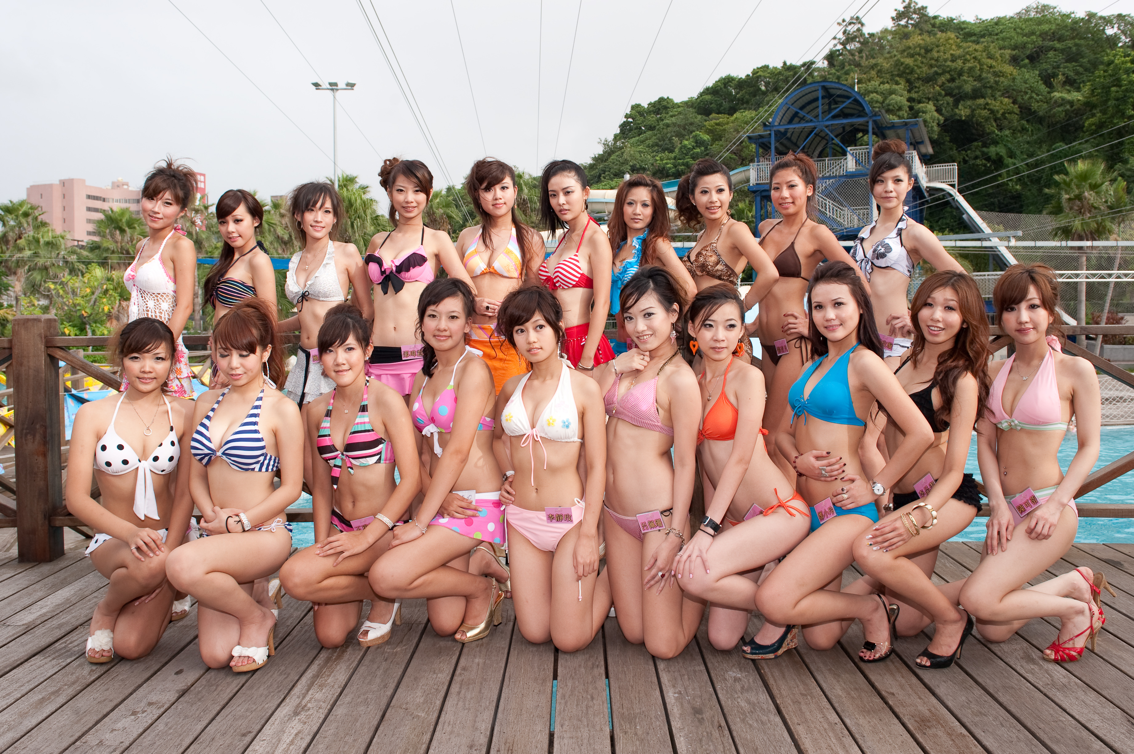 young asian women in bikniis